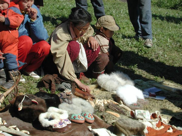 Market in Yanrakinnot